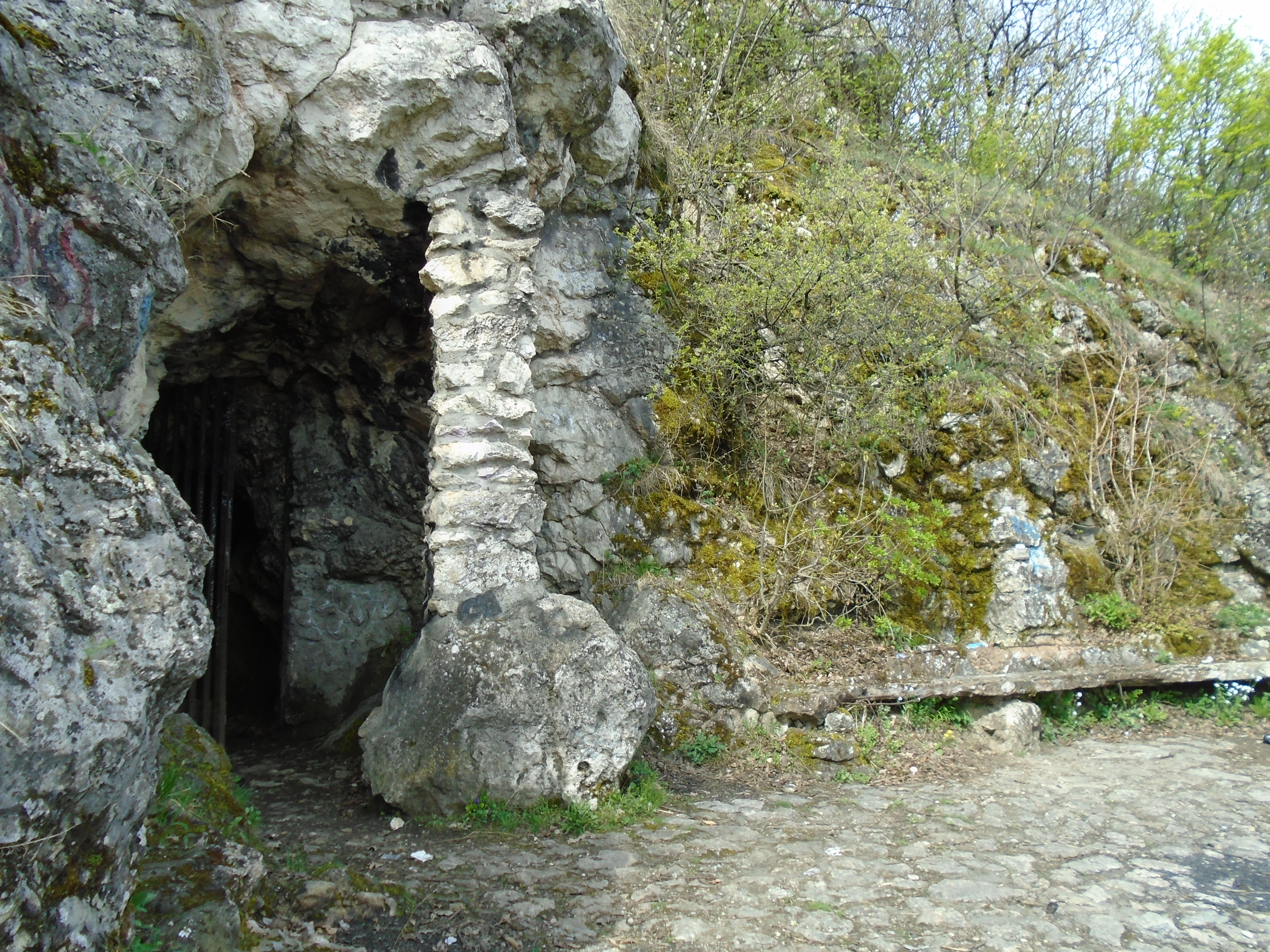 Tábor-hegyi Cave foreground.